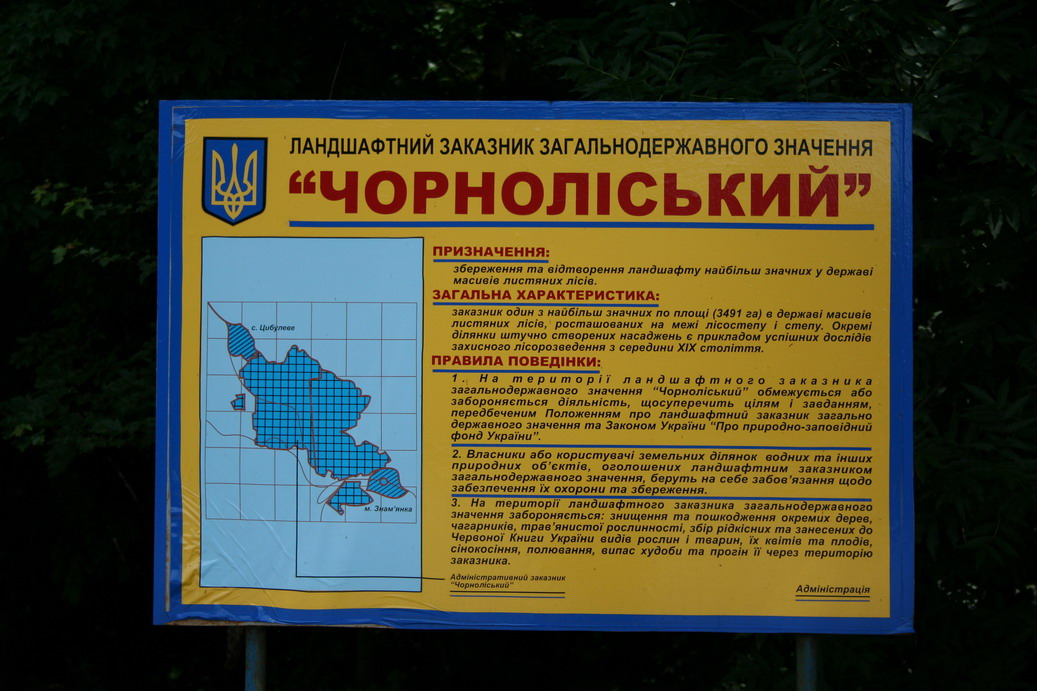 black forest near Znamyanka official